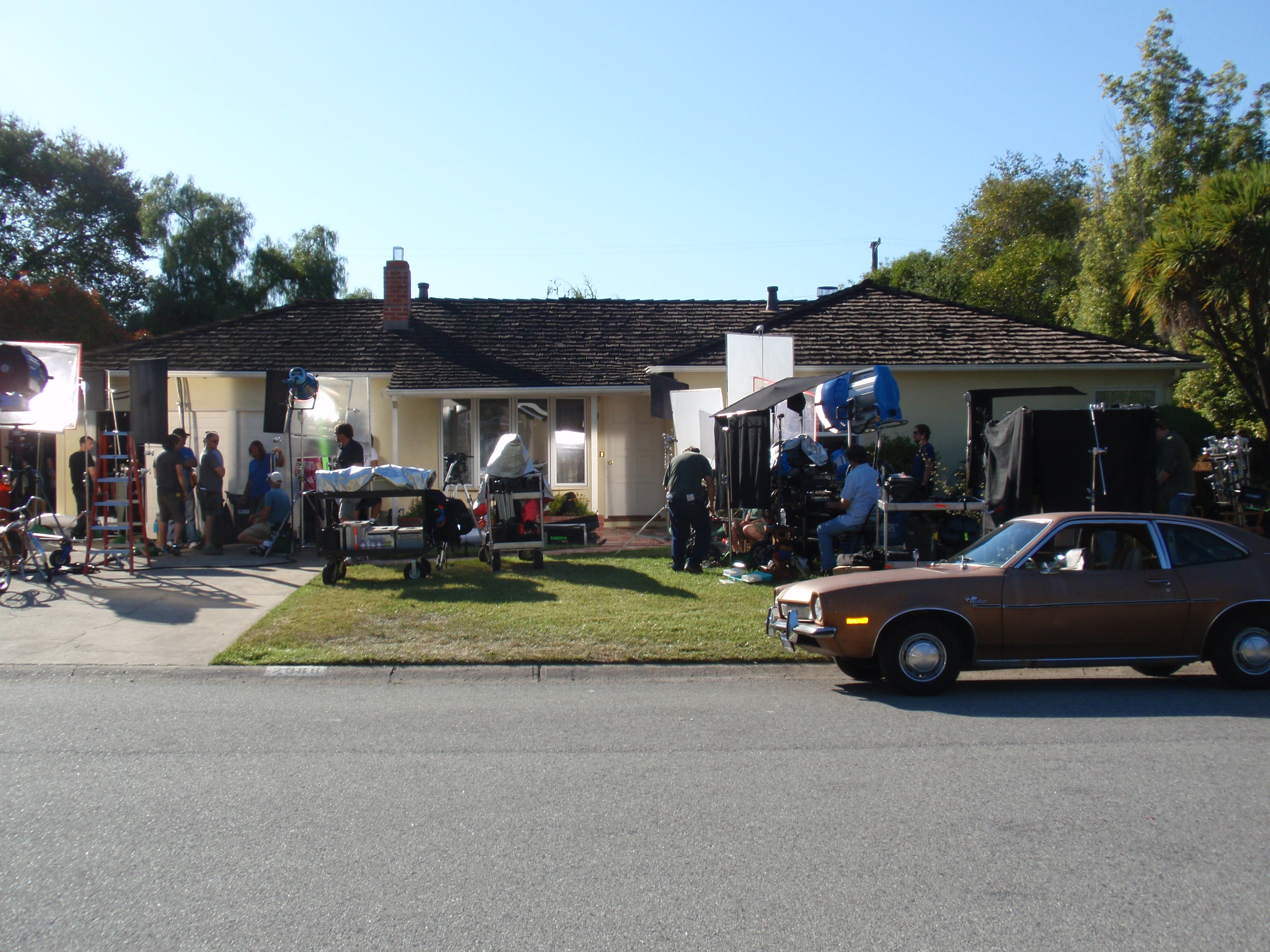 Filming at Steve Jobs' childhood home at 2066 Crist Drive, Los Altos.